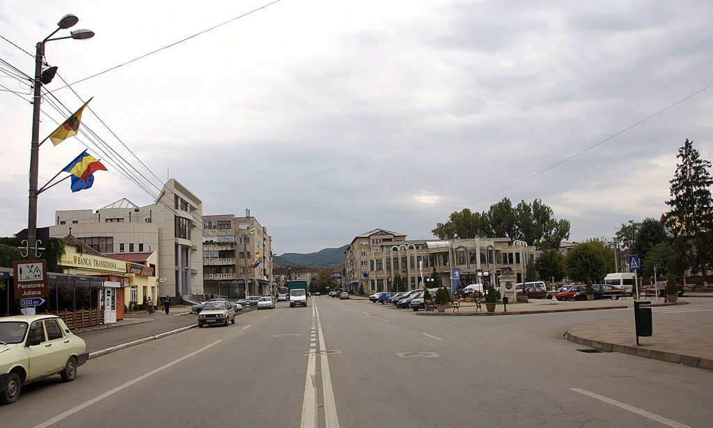 Brad - main street